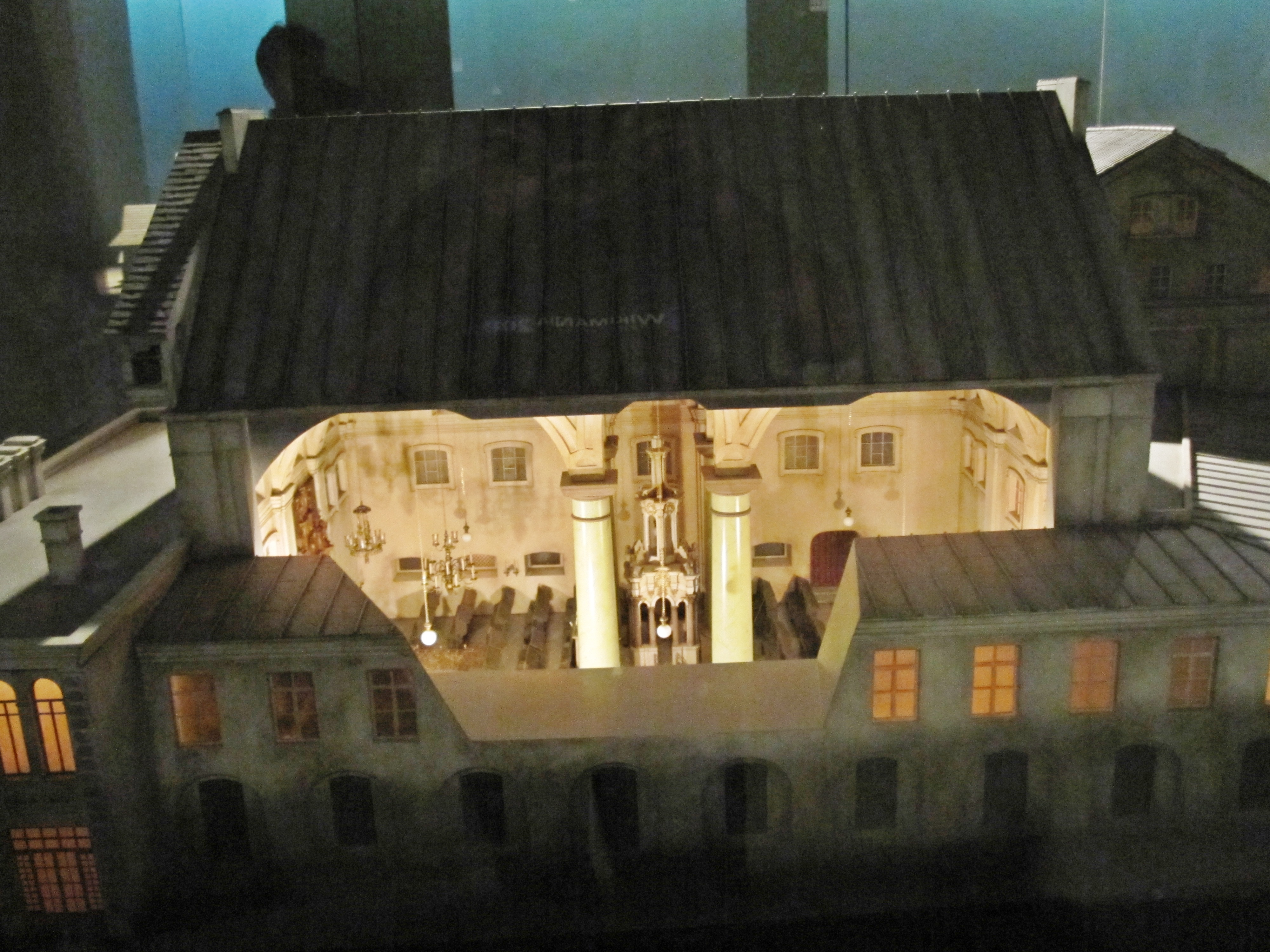 This is a photo of an exhibit at the Diaspora Museum, Tel Aviv - Beit Hatefutsot. Model of Great Synagogue of Vilna